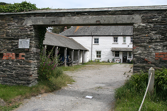 St Endellion: fish cellars at Port Gaverne. One of the surviving courtyards of cellars, now owned by the National Trust. Pilchards were once salted and washed and packed into barrels here for export